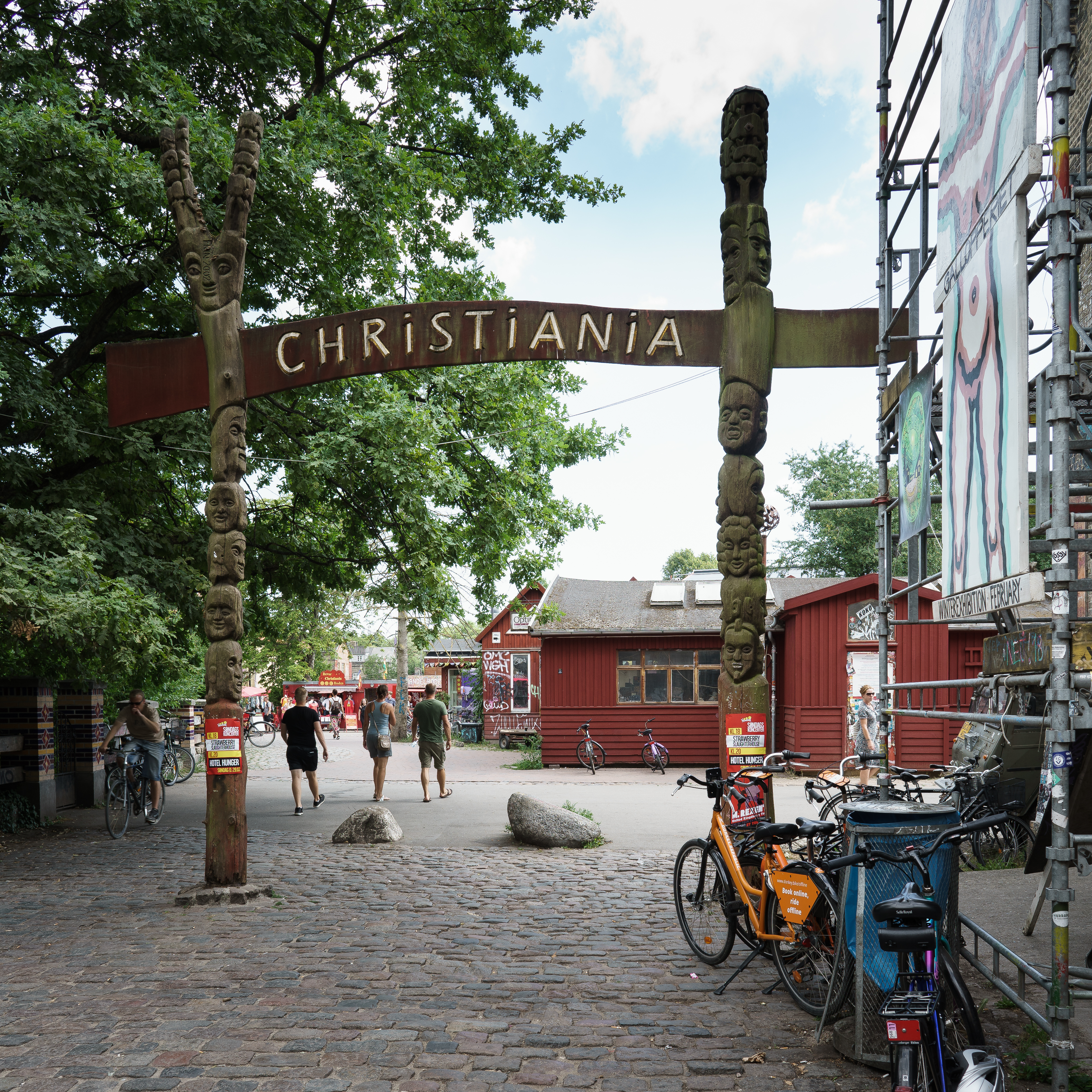 Freetown Christiania - entrance / exit